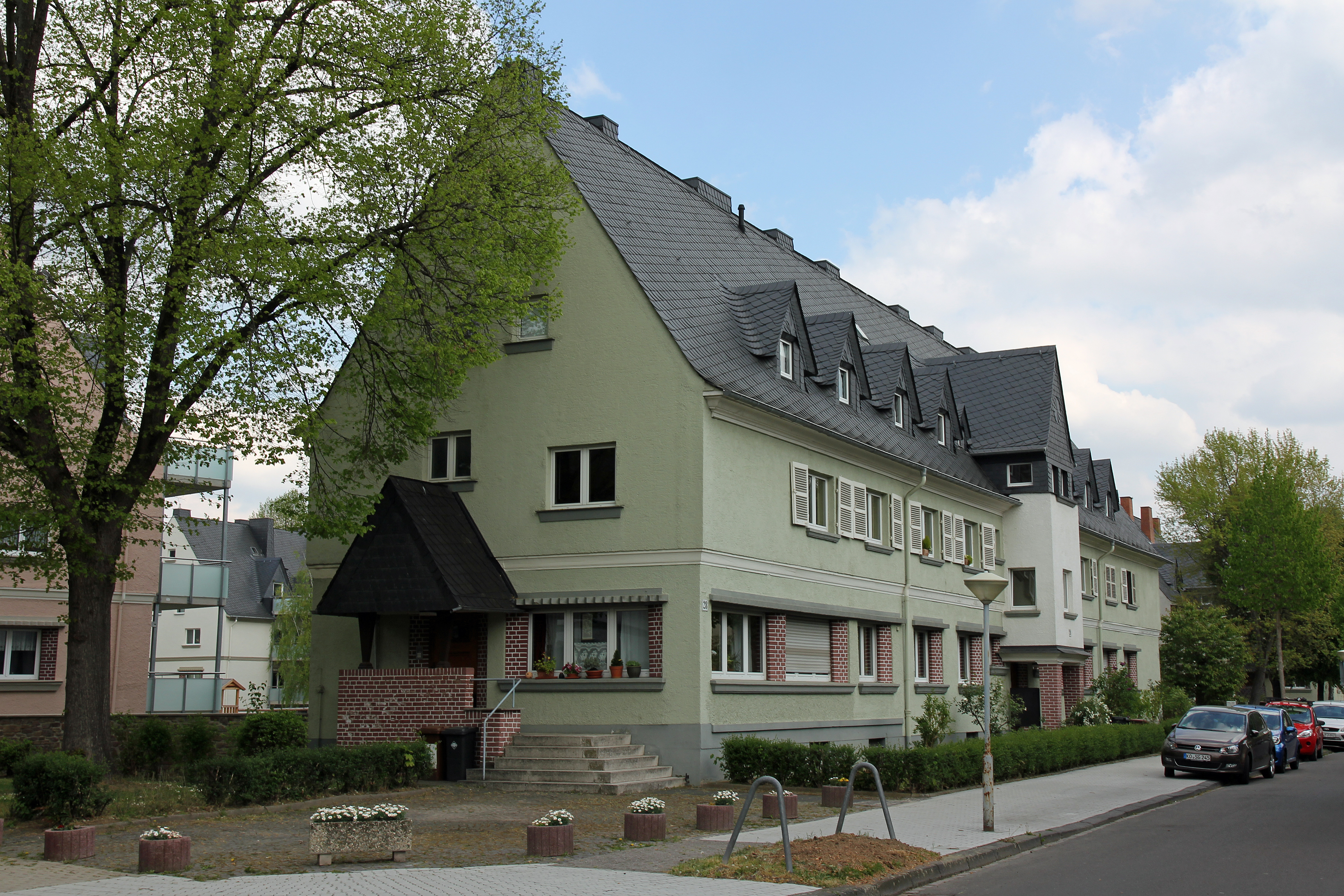 Beamtensiedlung Oberwerth in Koblenz